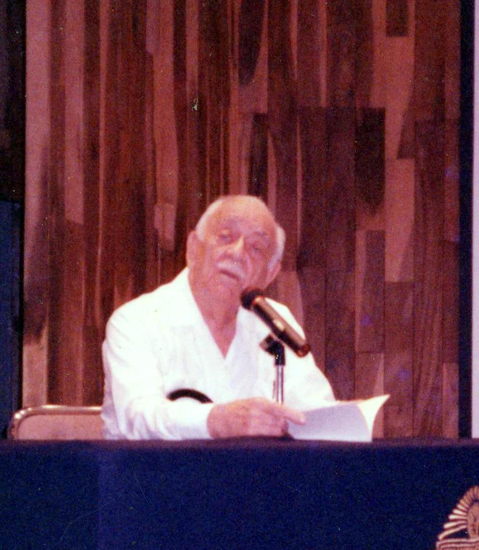 Conference of Mr Jose Diaz Bolio in the University of Yucatán